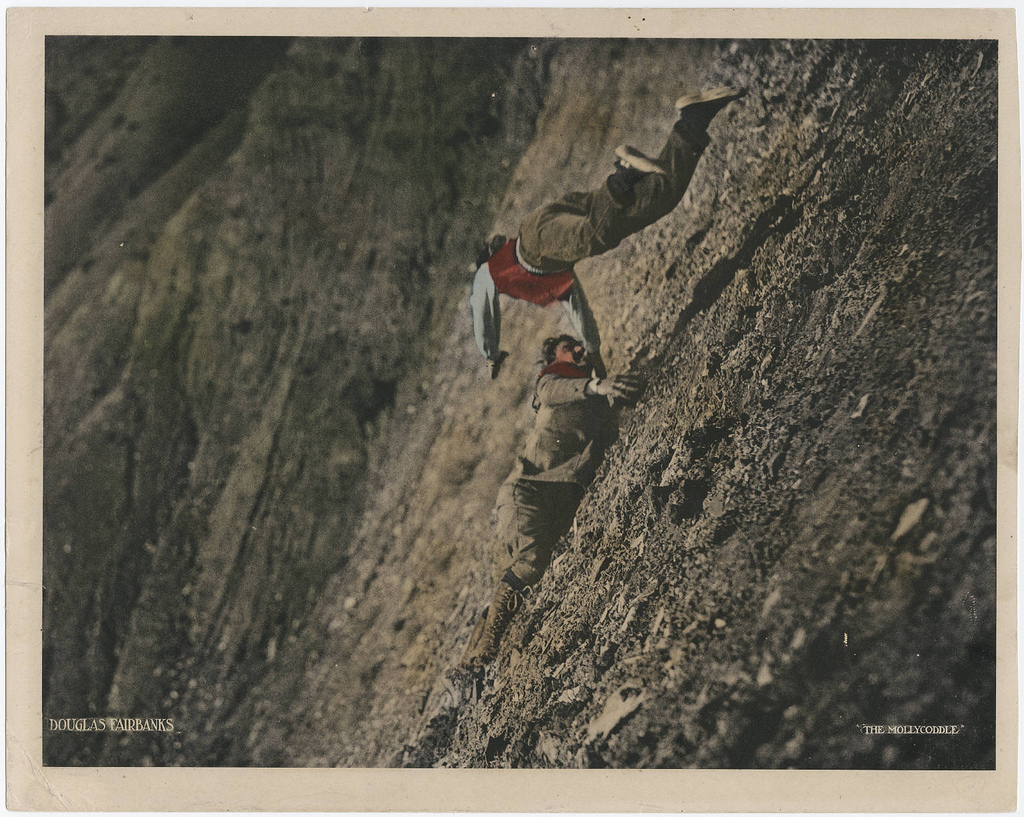 Lobby card for the American film The Mollycoddle (1920) starring Douglas Fairbanks and Wallace Beery. Beery plays an ice-cold villain brawling with Fairbanks' character all the way down the side of a mountain in this scene. Approximately 27.8 x 35.5 cm. Part of the Western silent films lobby card collection, 1912-1930. Cite as Yale Collection of Western Americana, Beinecke Rare Book & Manuscript Library, Yale University. Bibliographic Record Number 2020109. View our Record: Permalink.